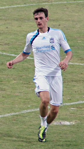 English football player, Jack Robinson, during Liverpool FC pre-season training in Singapore.